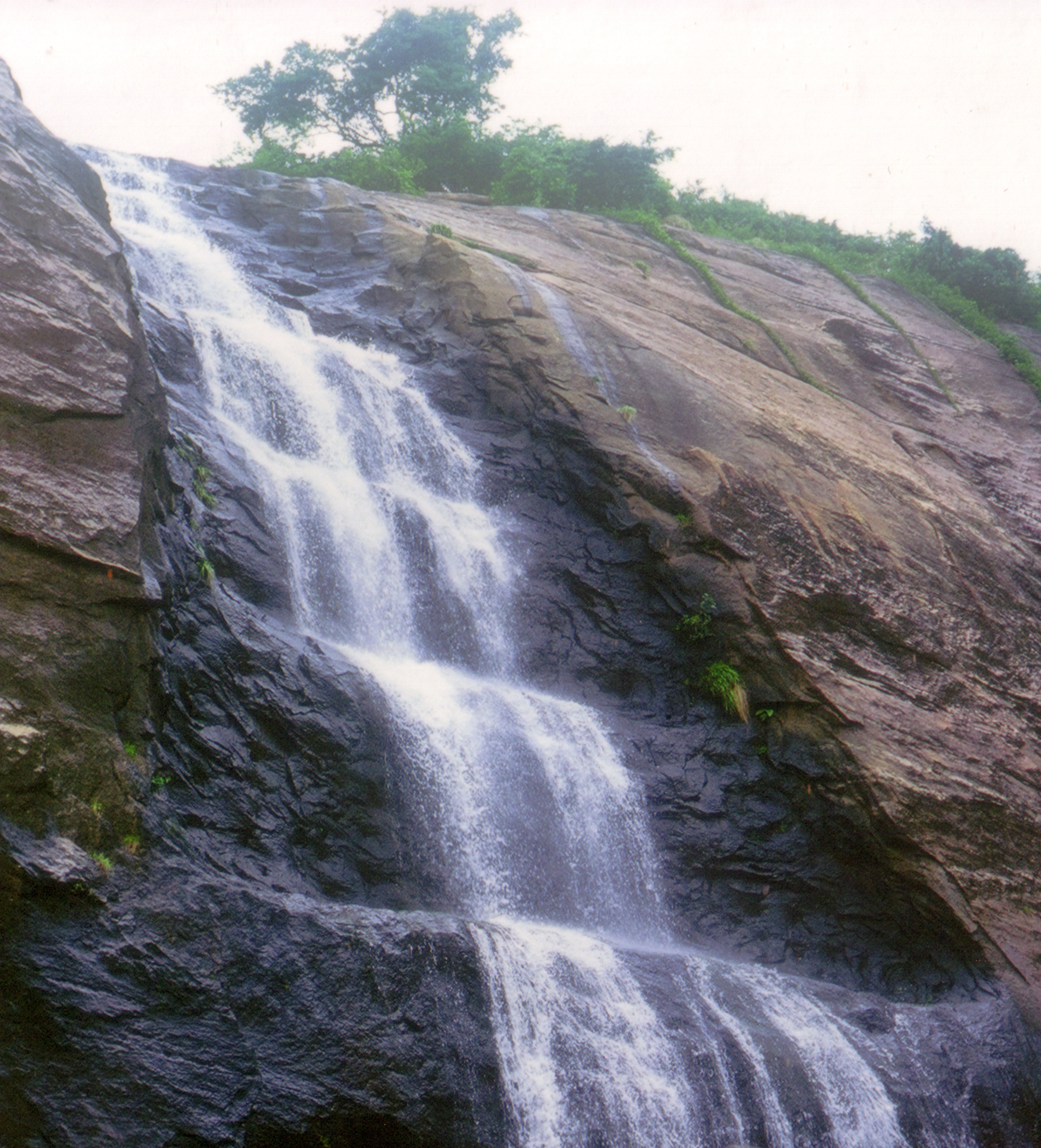 Courtallam Old Falls, which is in Tamil Nadu, India.